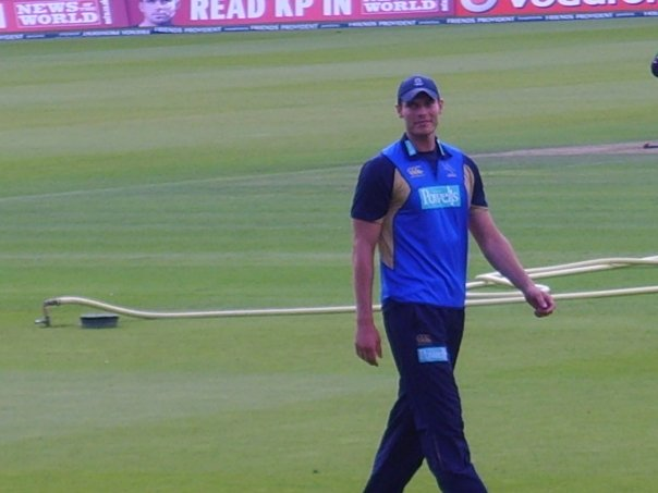 Chris Tremlett, seen here during the 2009 Friends Provident Trophy final. This was his final season before he moved to Surrey, where he regained his place in the England Test team.